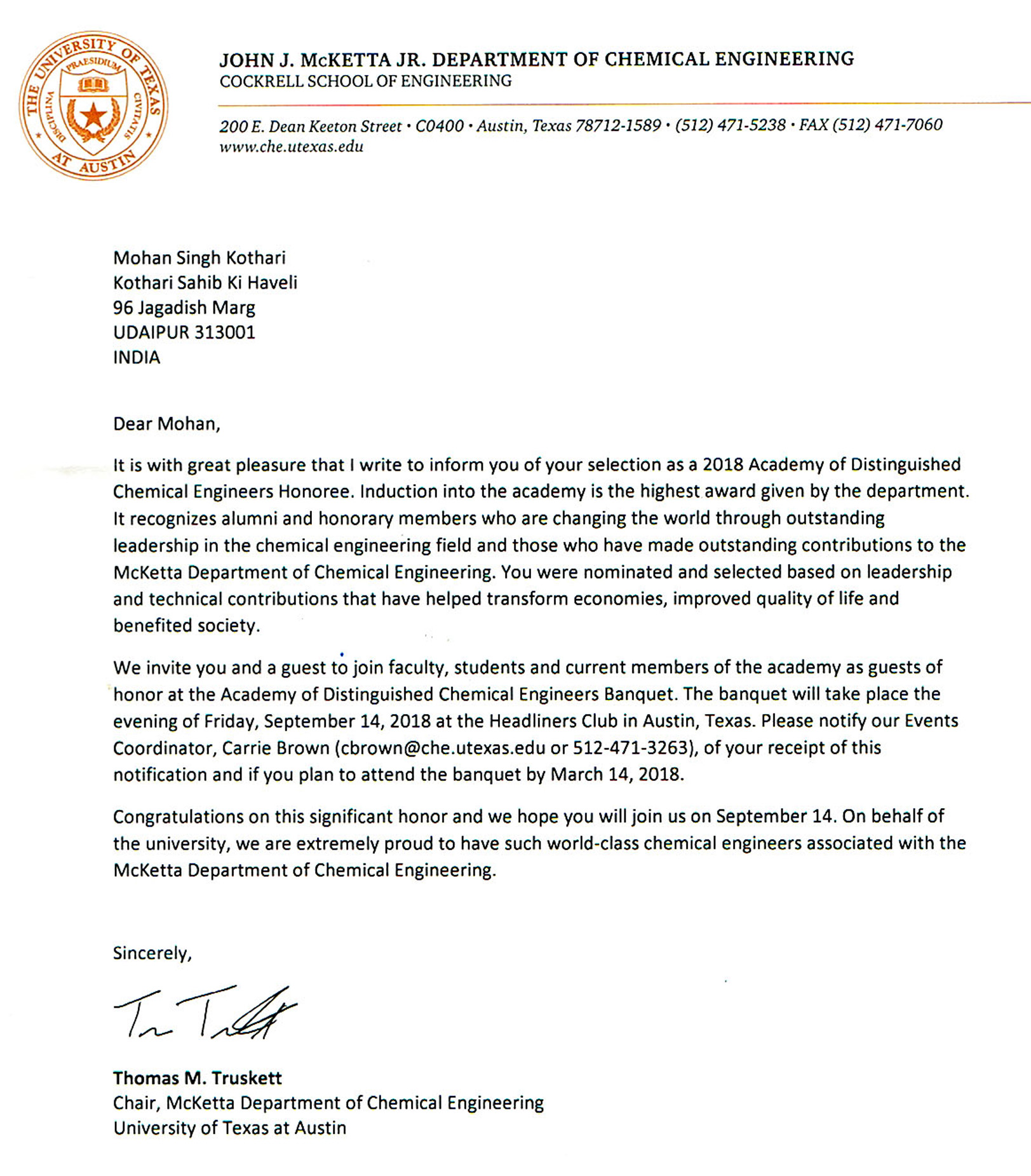 Department of Chemical Engineering of the University of Texas at Austin as Academy of Distinguished Chemical Engineers Honoree on September 14, 2018, at Austin, Texas, U.S.A.